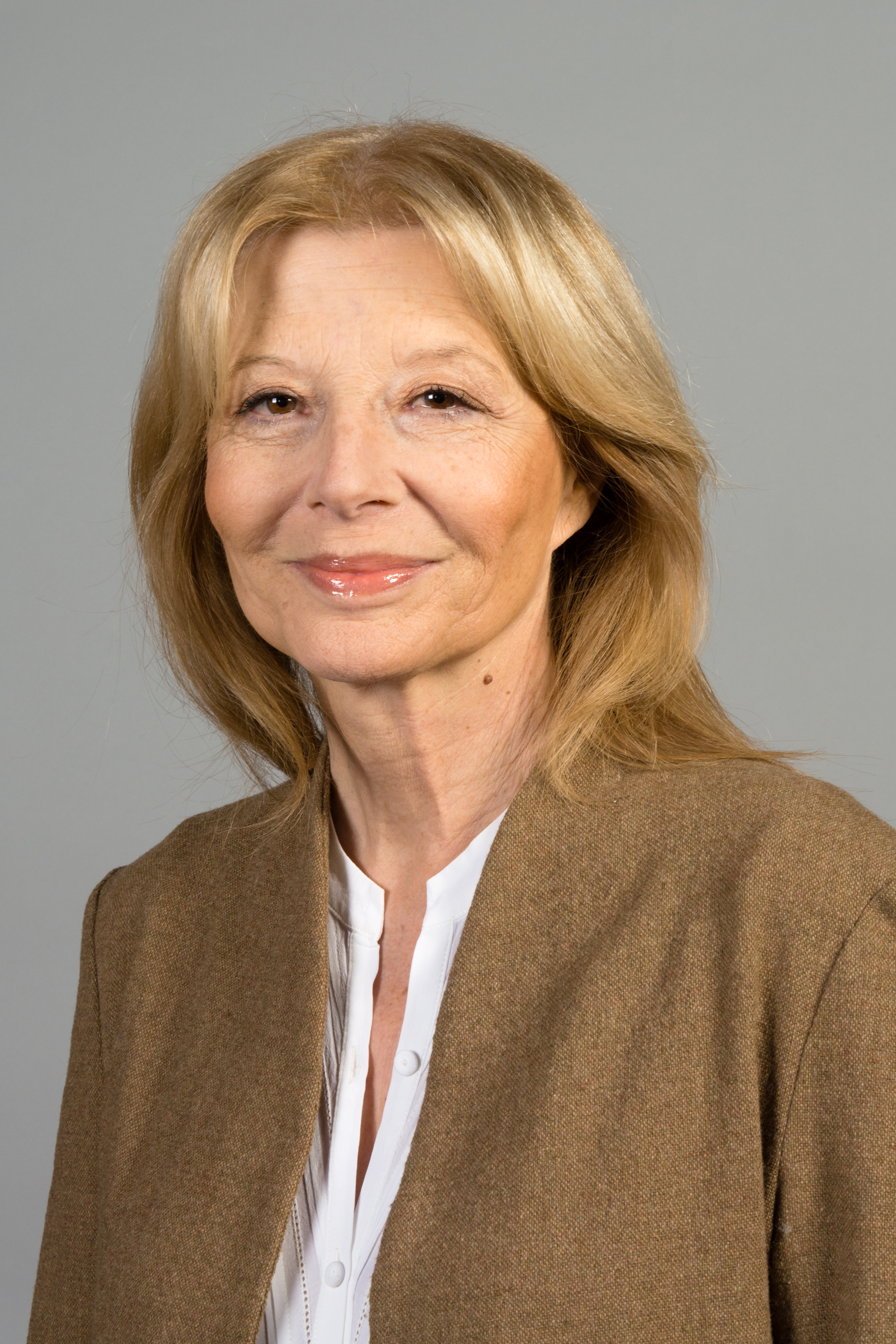 Véronique De Keyser is a Belgian politician and Member of the European Parliament with the Parti Socialiste.